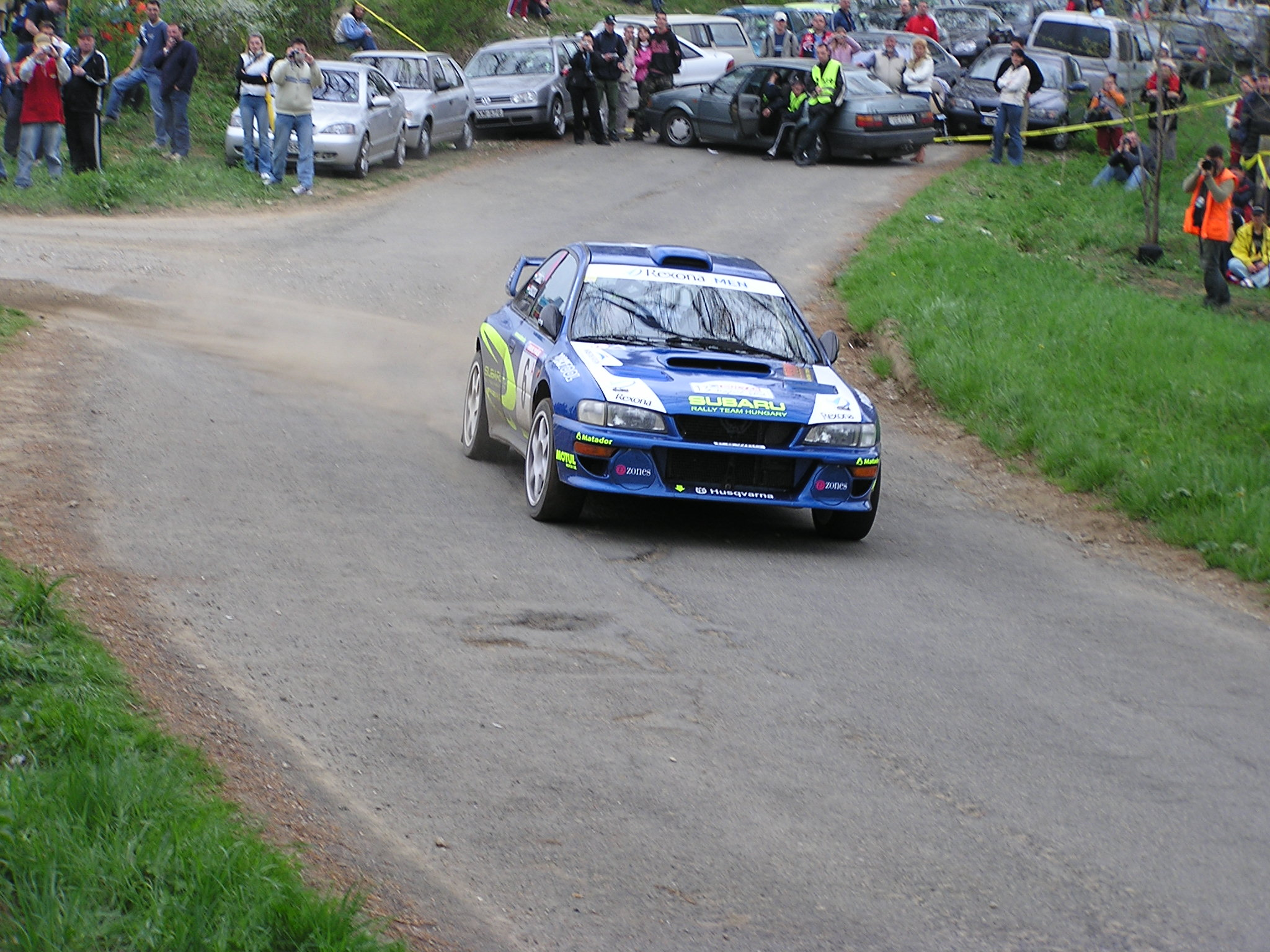 2006 Miskolc Rally (Hungary) Herczig Norbert - Subaru Impreza WRC